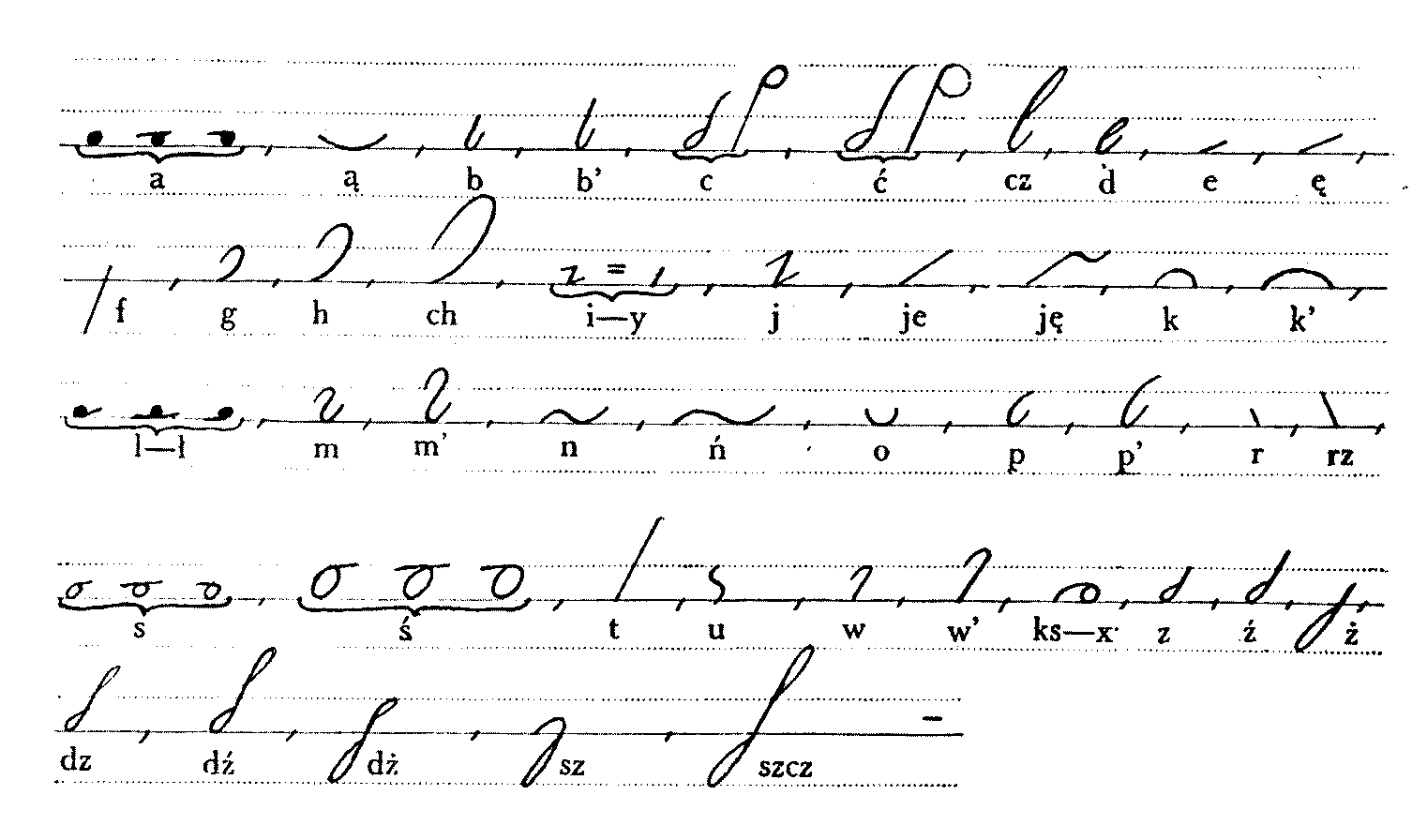 Alphabet of the Polinski's Shorthand System.